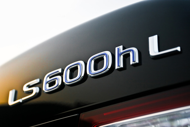 Lexus LS600hL with RX400h * Double "h" * Logo